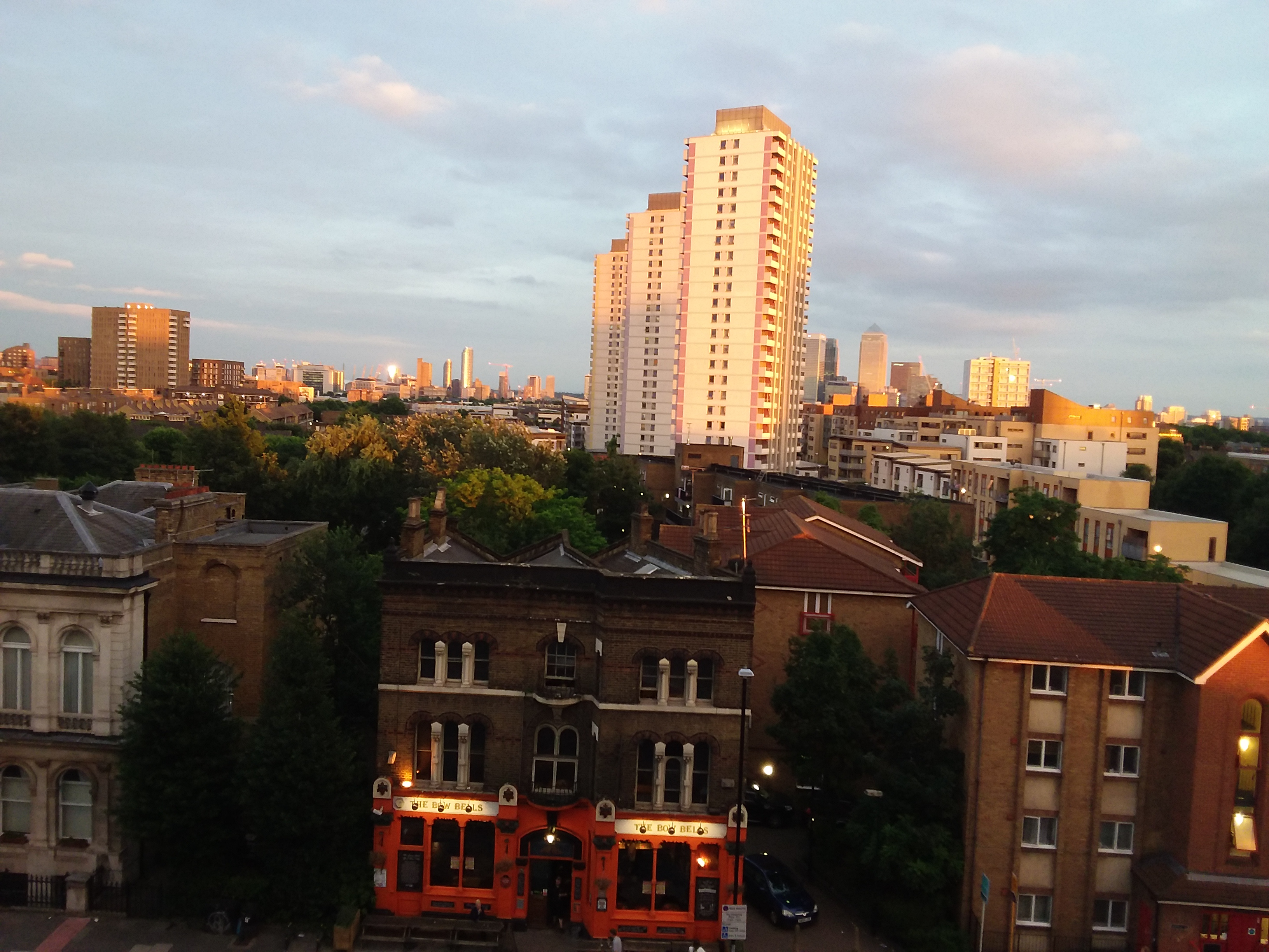 London